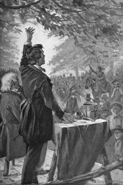 "Mrs. Casey's Warning to Parson Brownlow" — illustrator Dan Beard's depiction of radical pro-Union newspaper editor William "Parson" Brownlow speaking in Sevierville, Tennessee, USA, on the eve of the Civil War in 1861.